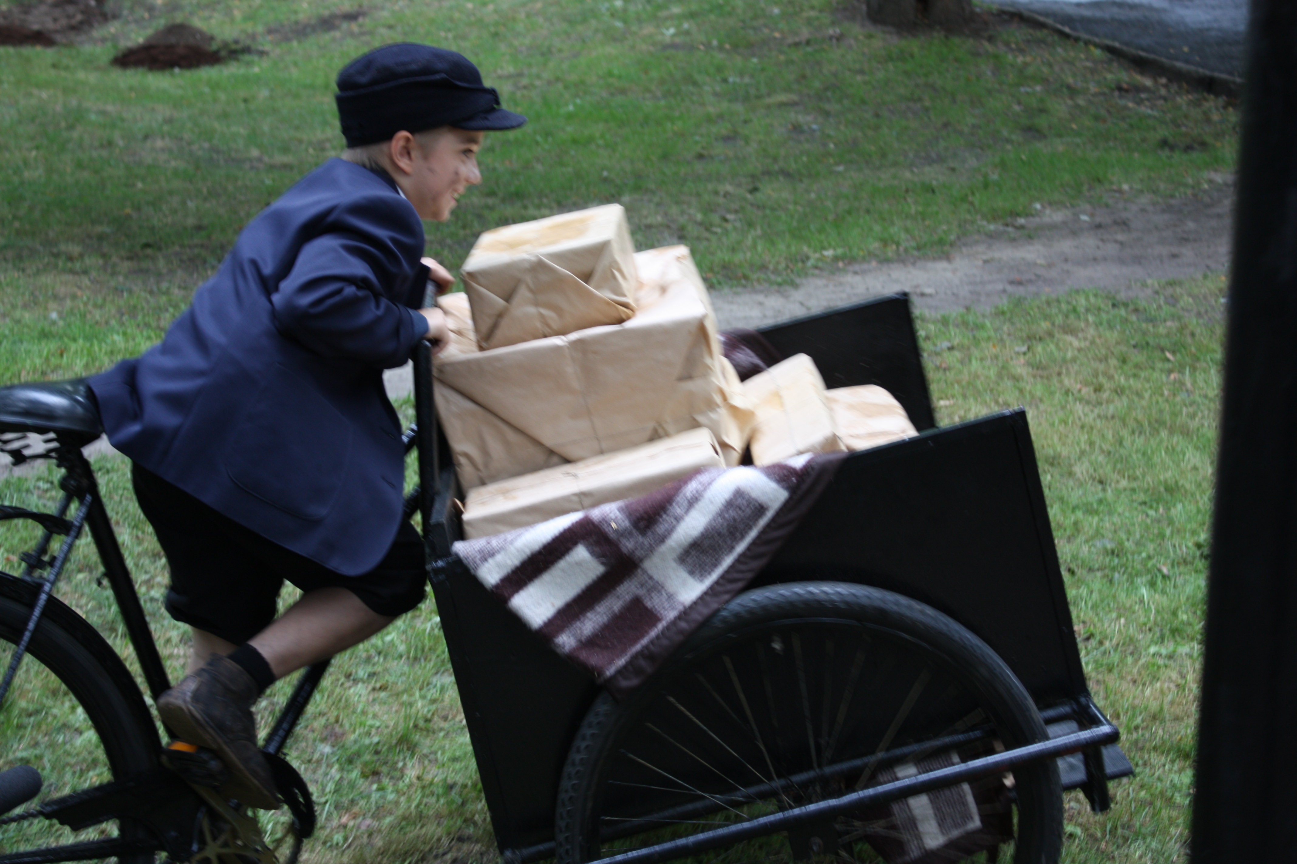 Warsaw Uprising reenactments - Mokotów'44